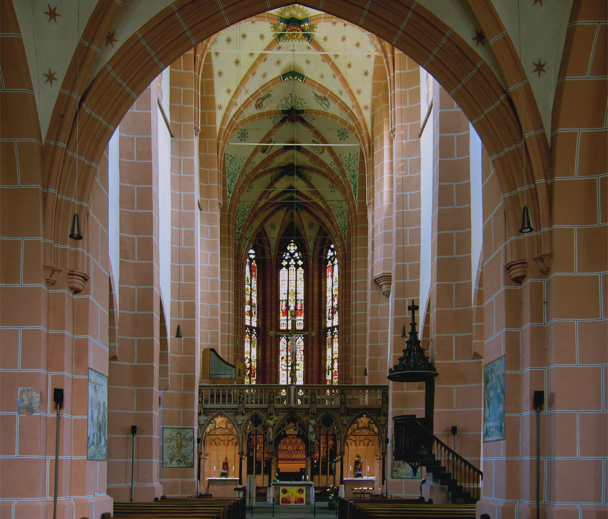 Interior of the old and famous Liebfrauen Church of Oberwesel